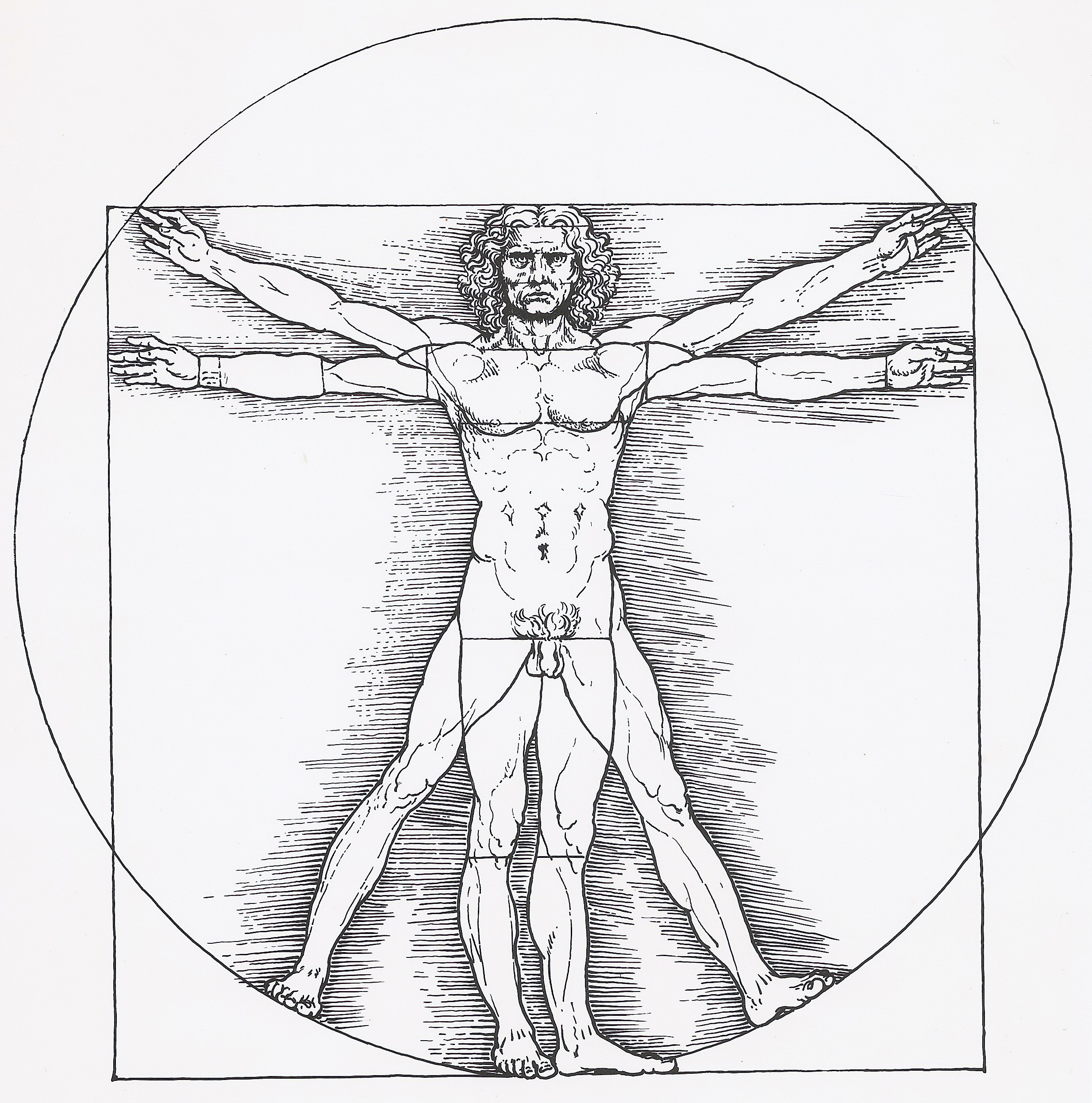 Vitruvian man by Leonardo da Vinci